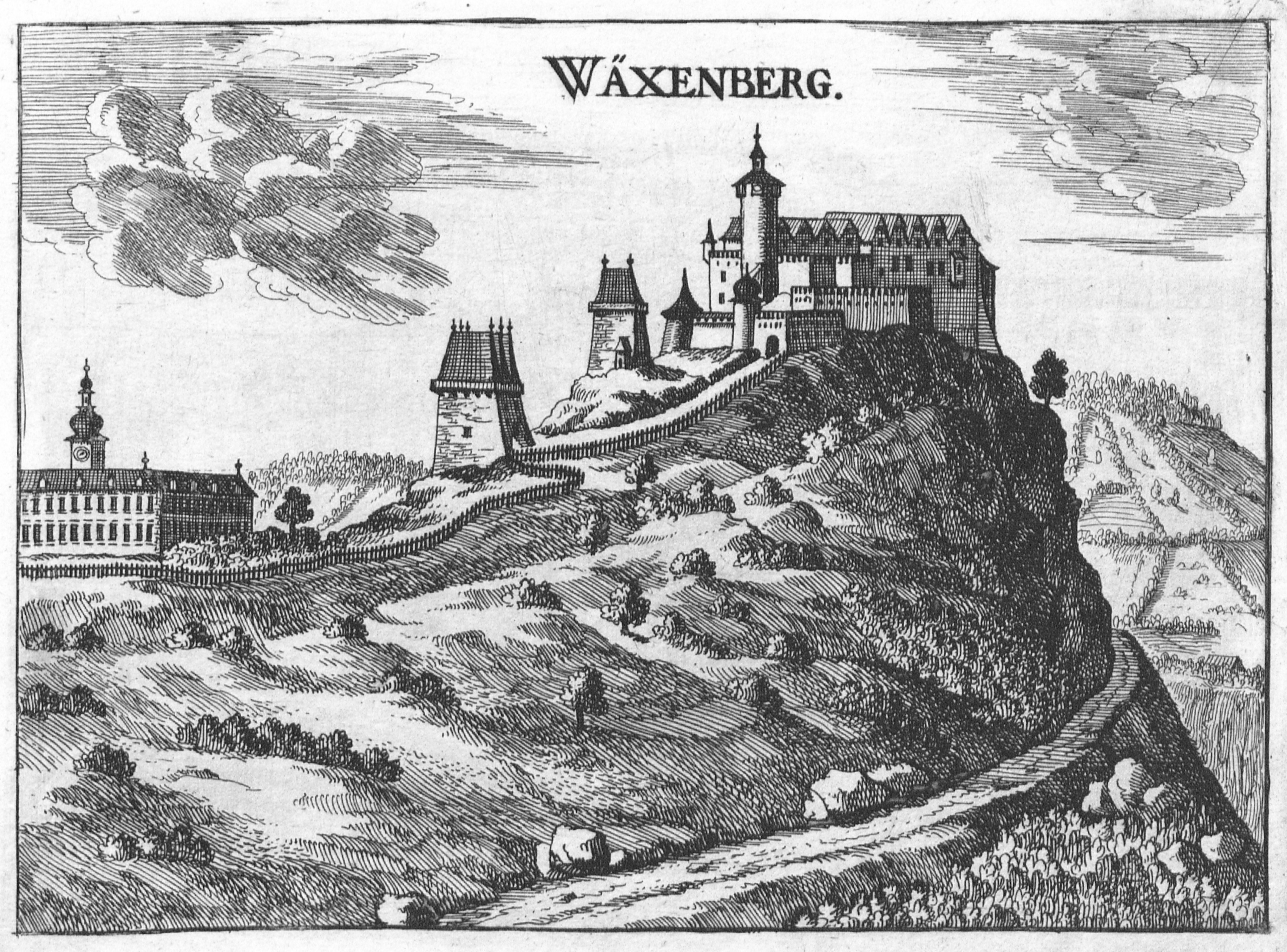 Castle Waxenberg in Upper Austria, drawing from M. Vischer 1674